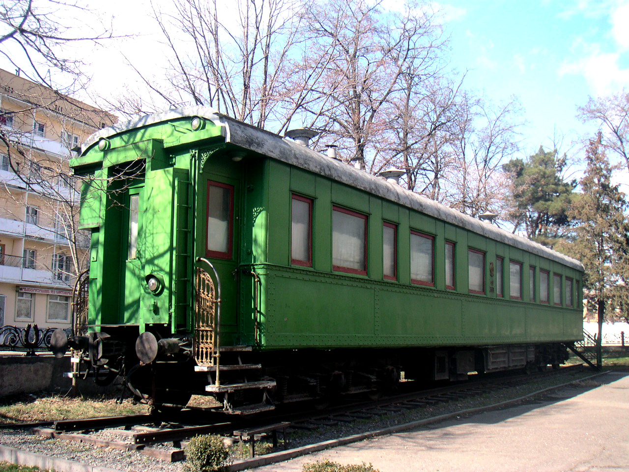 Stalin's personal railway carriage, at the Stalin Museum in Gori, Georgia.